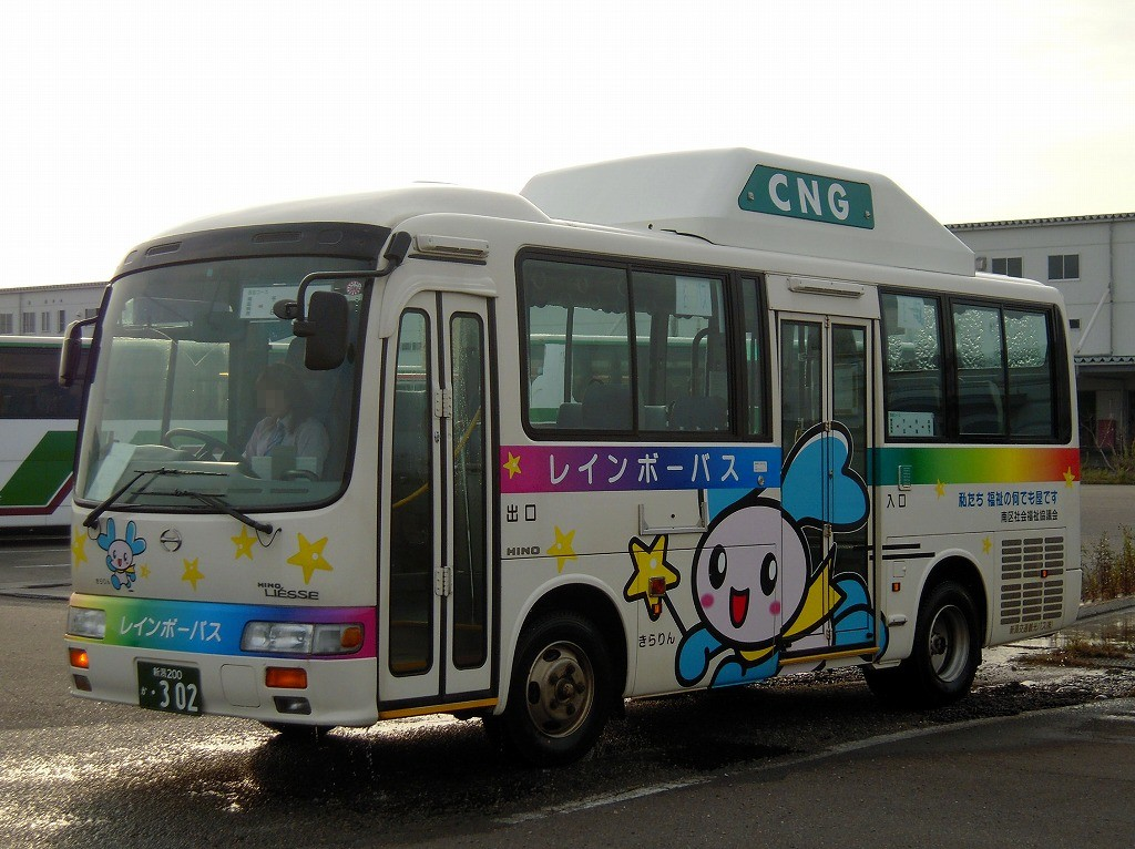 Niigata city Minami ward bus (Rainbow bus,Niigata kotsu kanko bus) HINO Liesse (CNG,PB-RX6JFAA),with permission